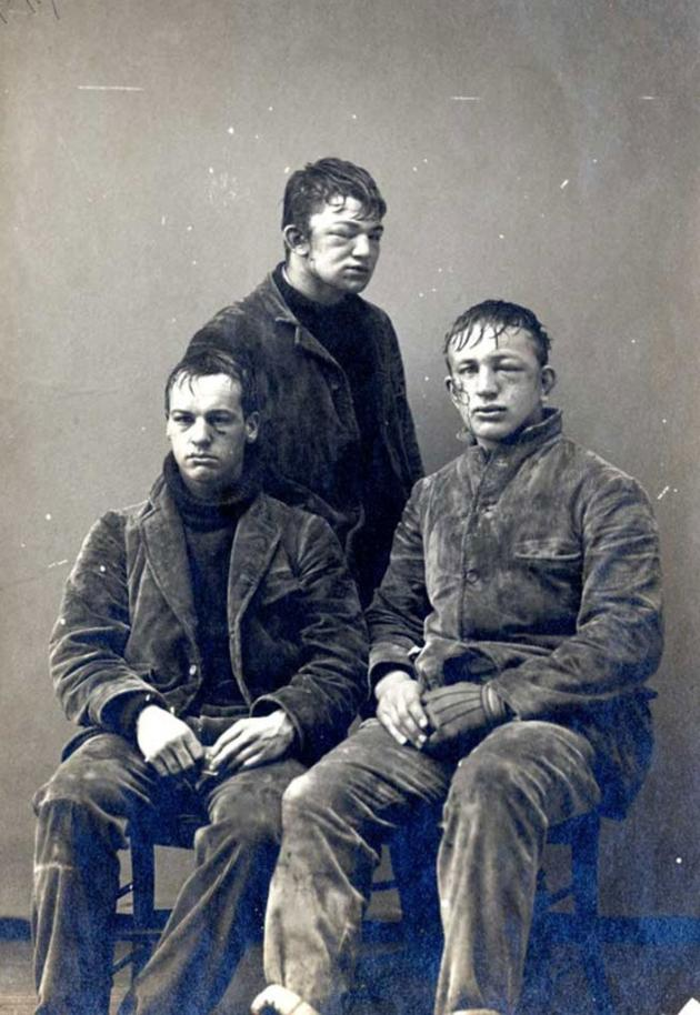 Princeton students after a freshman vs. sophomores snowball fight in 1893.